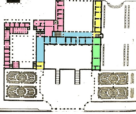 Graphic rielaboration of the construcion's sequencer of Villa Arconati in Bollate base on a 1743 map by Marcantonio Dal Re